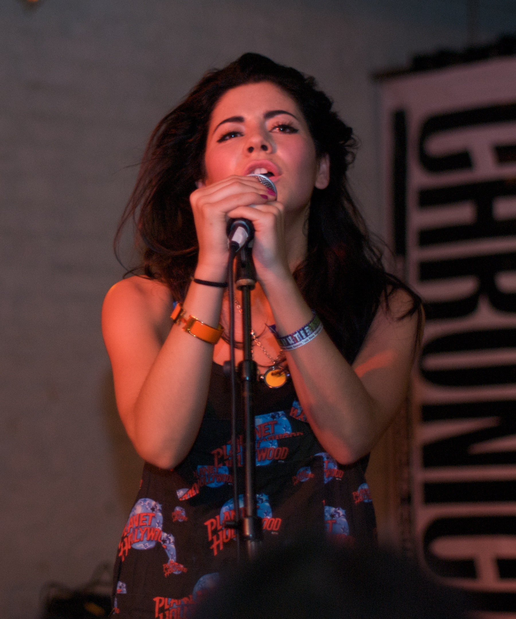 Marina and the Diamonds performing at the 2010 SXSW Music Festival.